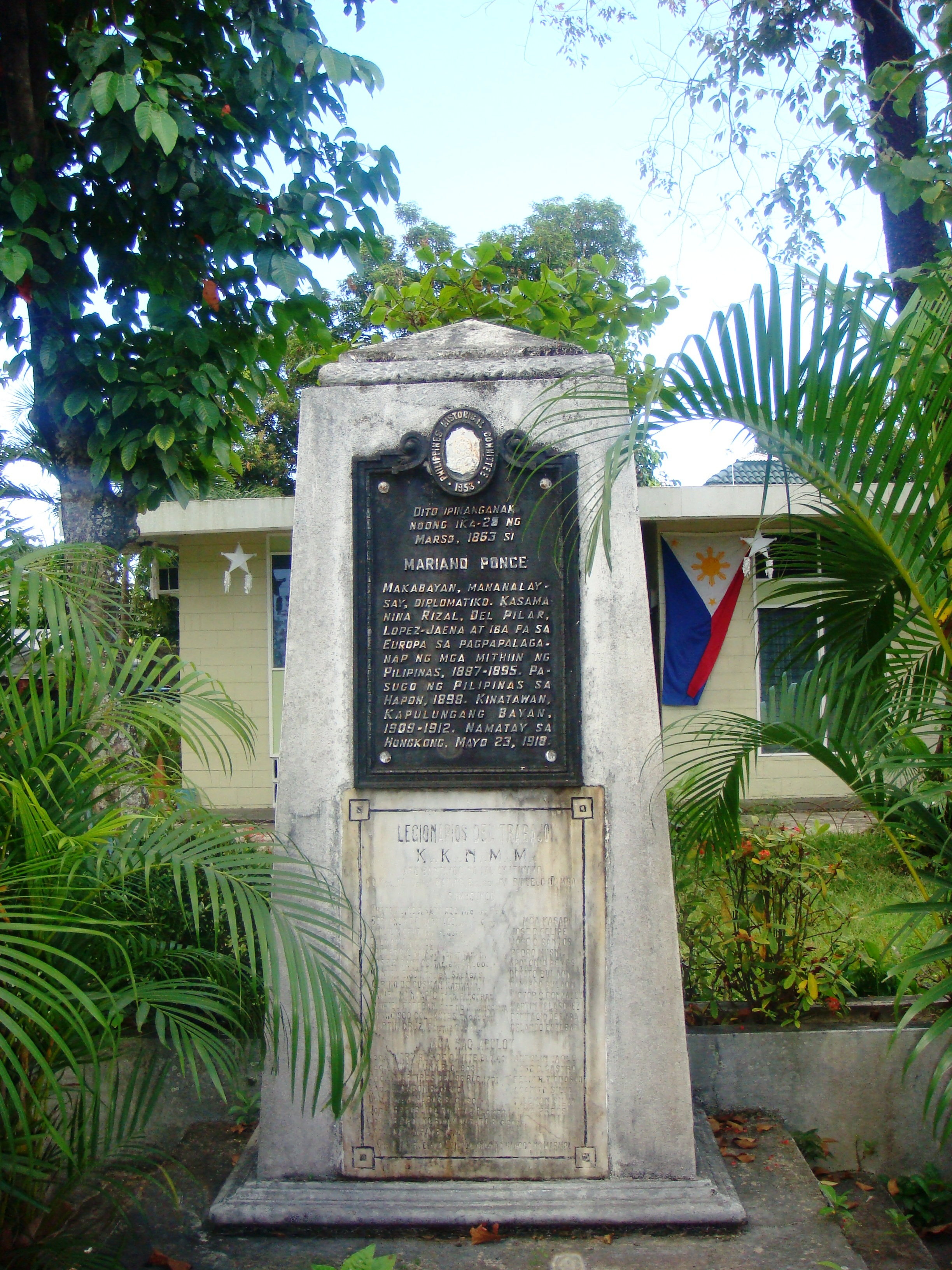 The Mariano Ponce (March 23, 1863-May 23, 1918) Commemorative Marker marks the site of the propagandist’s birthplace.